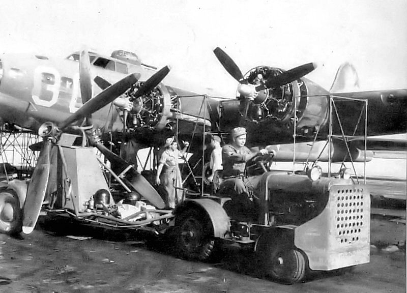 Hendricks Army Airfield - 1942 Yearbook - B-17 Engine maintenance